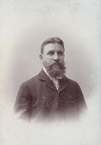 Vasil Radoslavov